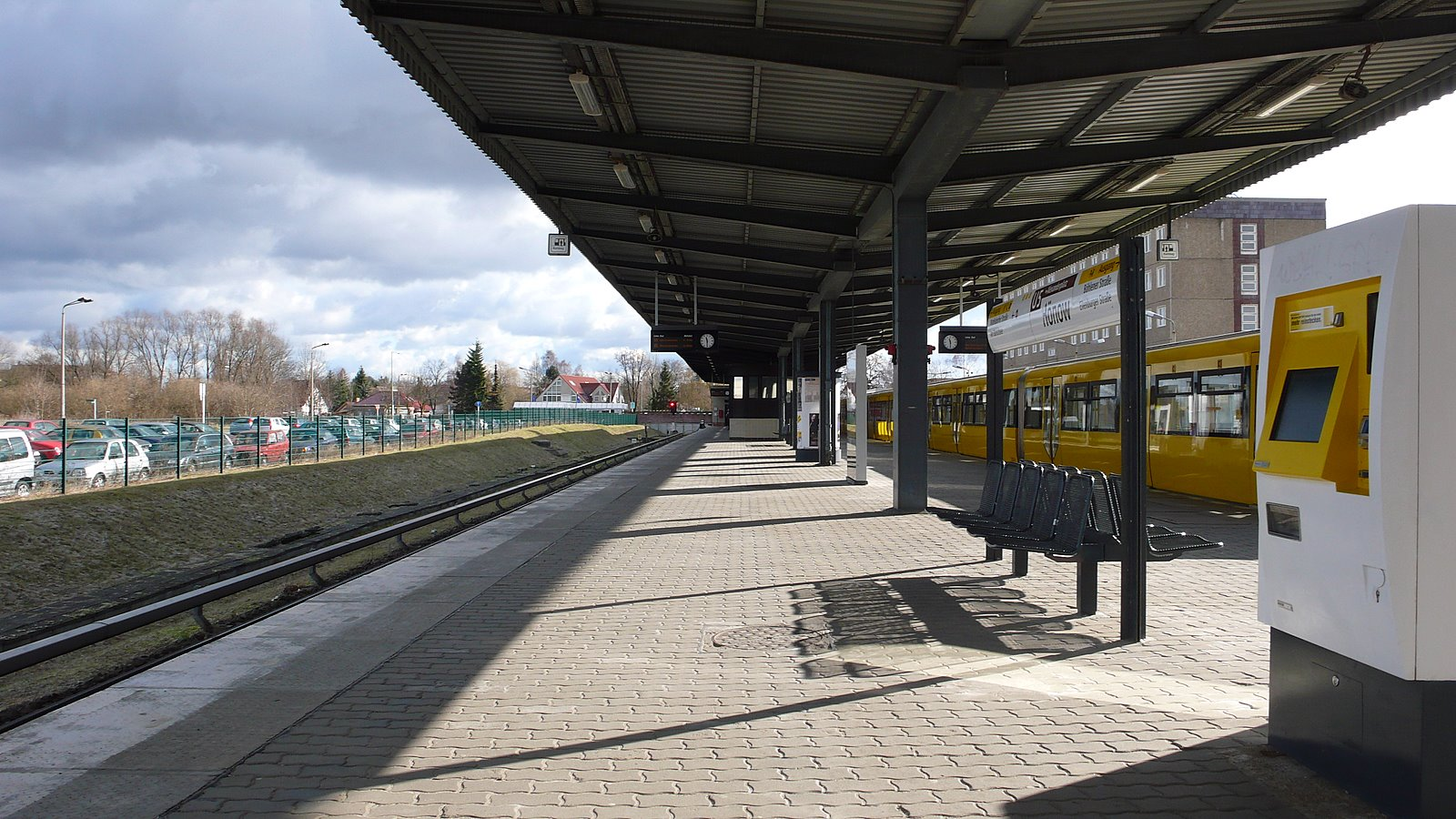 Subway Station Hoenow